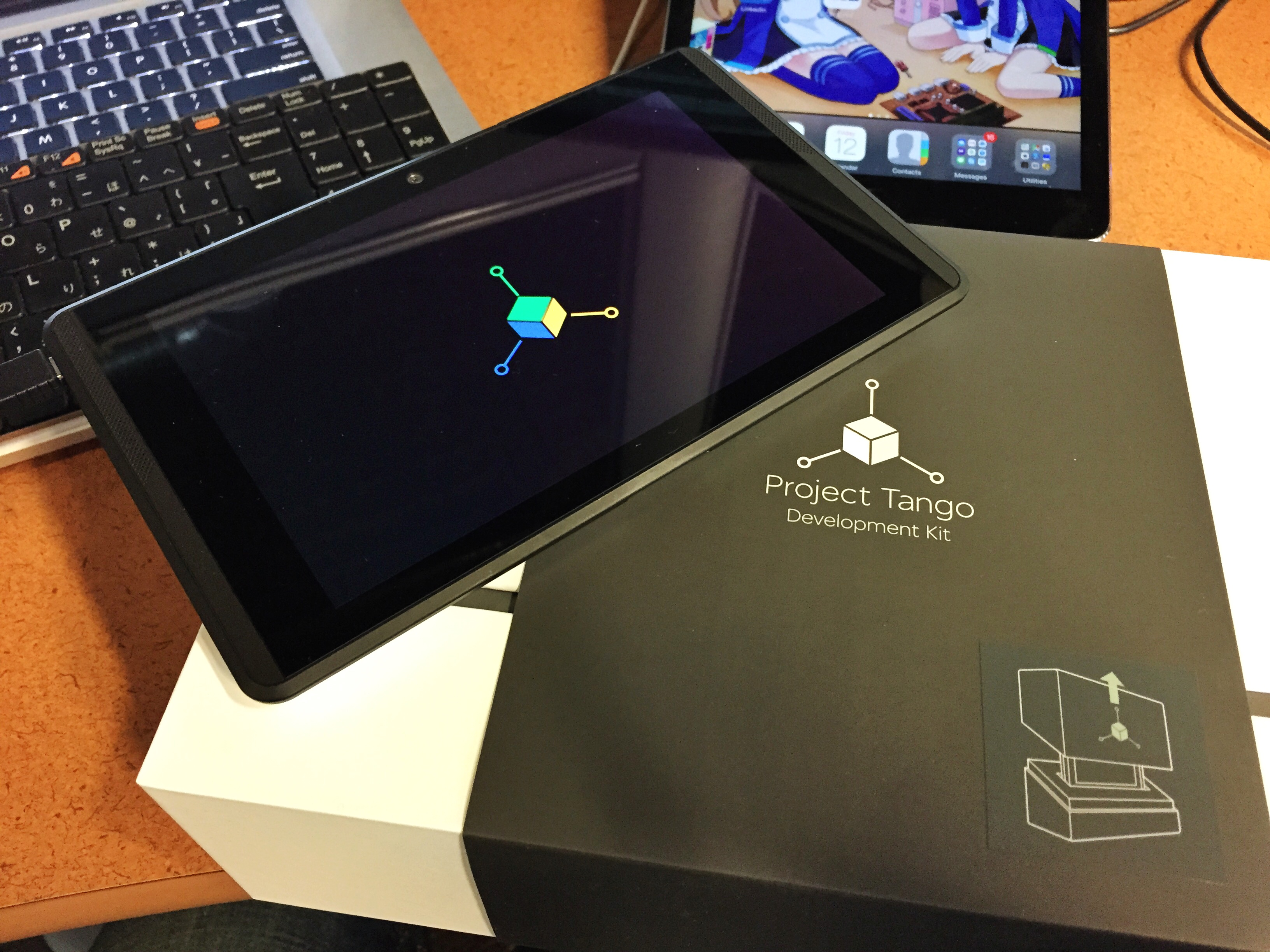 New toy to try playing around with, Google ATAP's Project Tango tablet